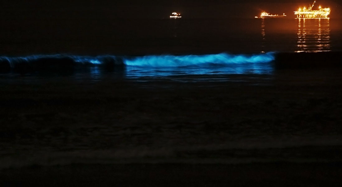 The waves at the shores of Seal Beach, California were giving off an eerie glow at night. Dinoflagellates are responsible for this bioluminescence.